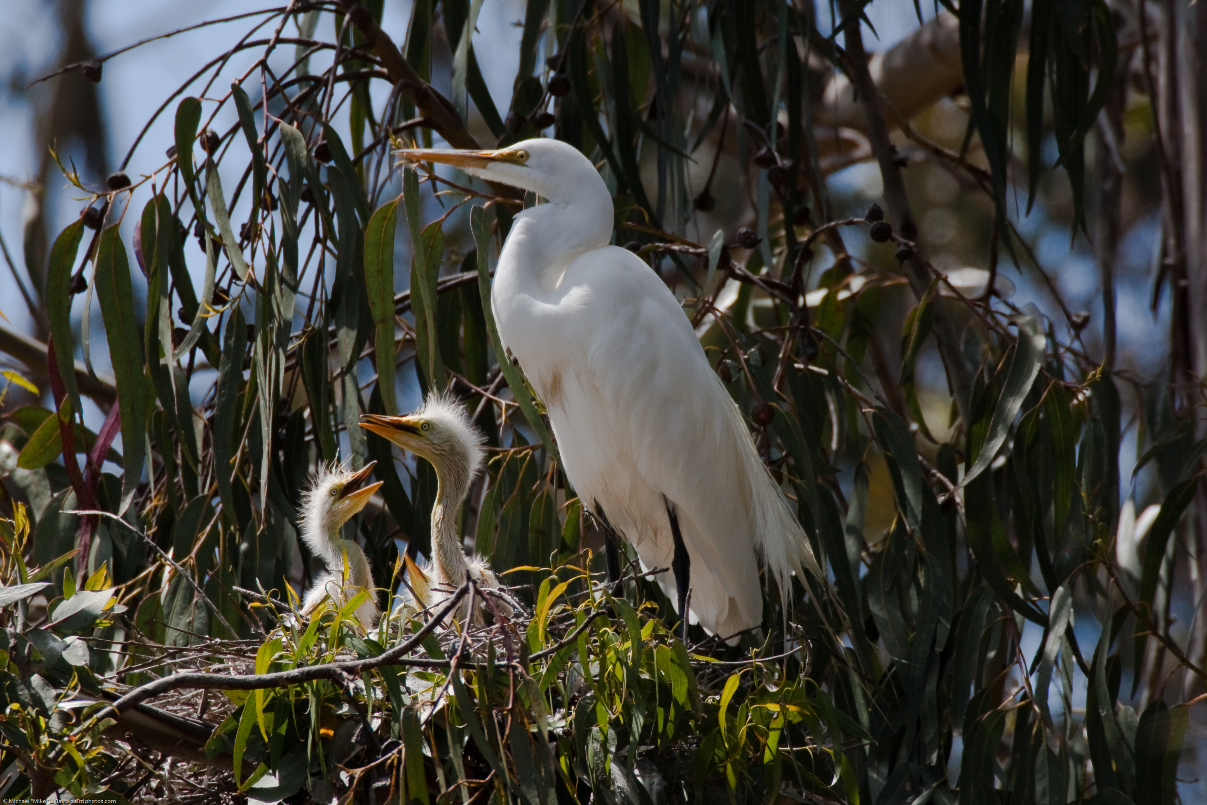 Great Egret (also known as the Great White Egret or Common Egret); parent on nest with chicks at Morro Bay Heron Rookery, USA.